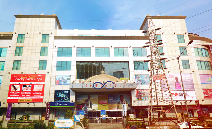 Infiniti Mall - Andheri